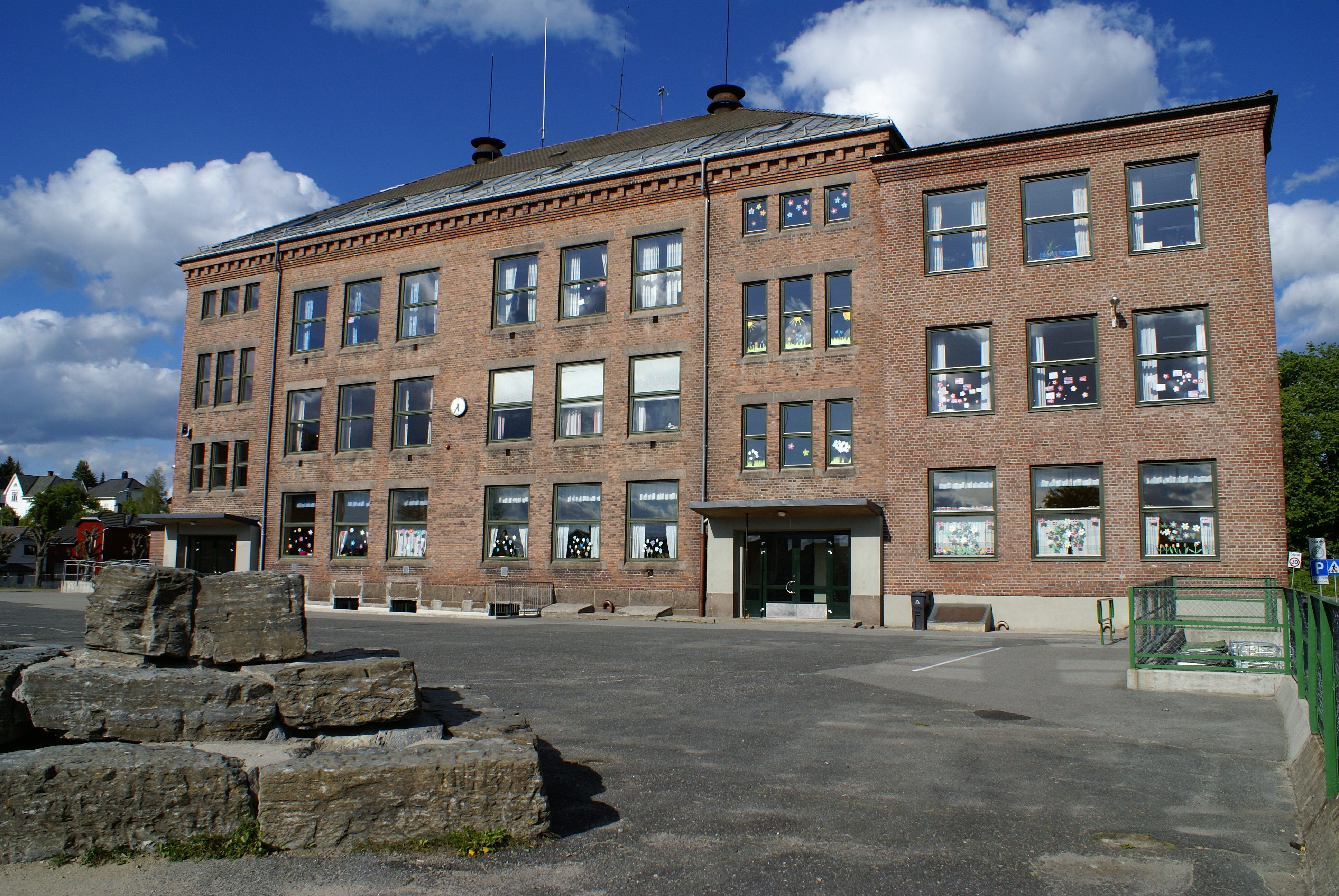 Bratsbergkleiva school